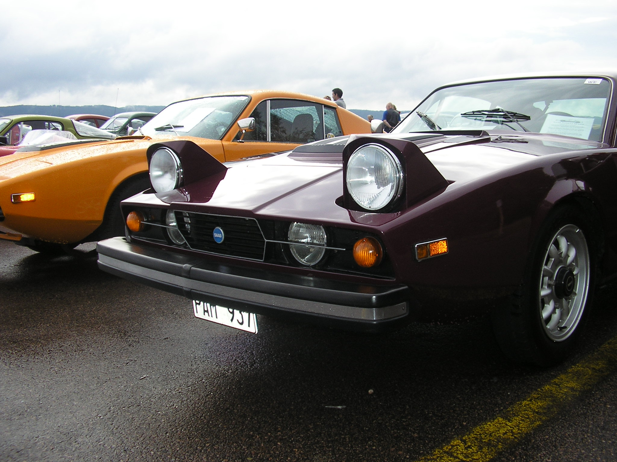 Pop-up headlights on a 1973 SAAB Sonett III at the International SAAB Club Meeting 2006.